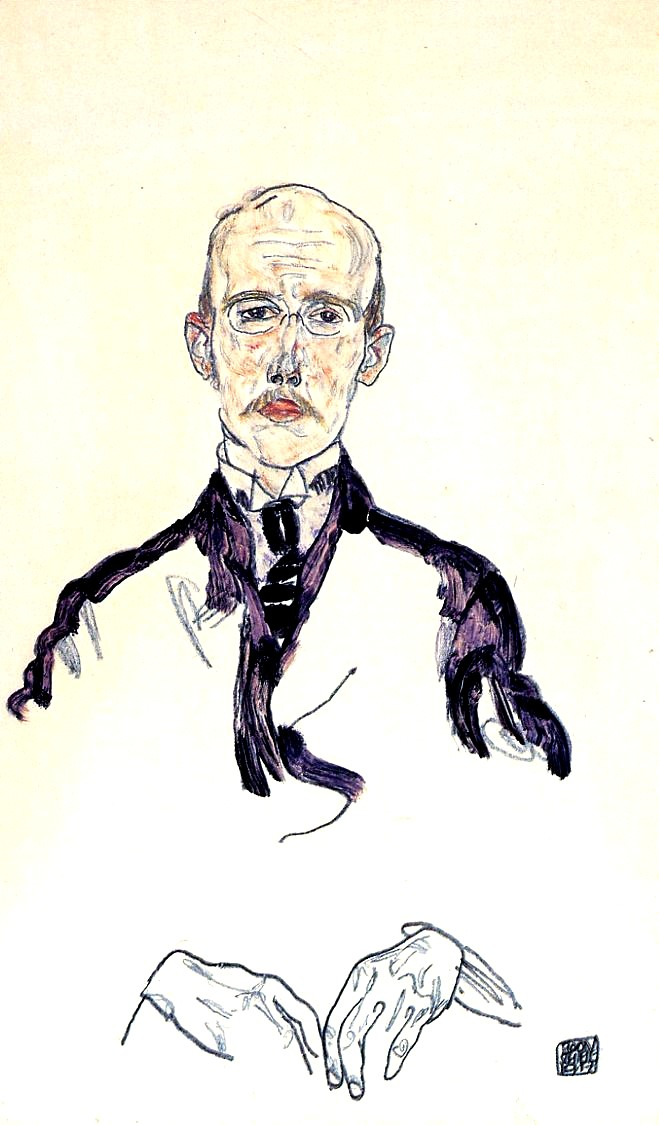 Portrait of Karl Maylander, 1917.